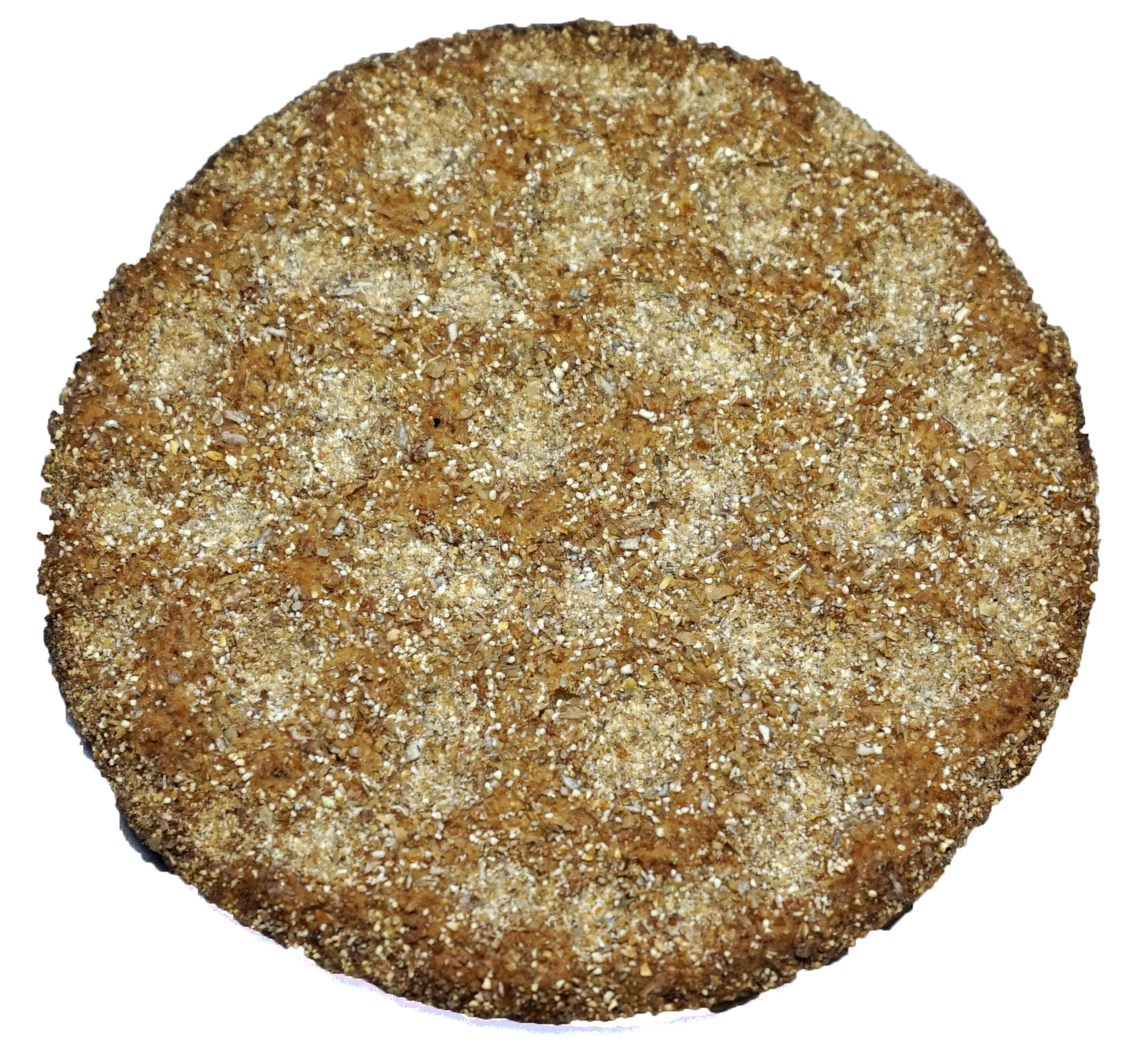 A rounded crisp bread by Vaasan Oy.